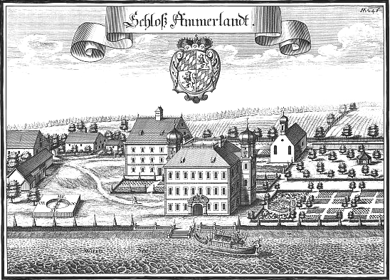 Ammerland castle with Starnberger See. Kupferstich, Michael Wening, aus Historico topographica descriptio Bavariae, 1701. The castle was built by Caspar Feichtmayr from Wessobrunner Schule by c. 1680. From 1842 until his death in 1876, it was the summer residence of Franz Graf von Pocci, who introduced Kasperle Larifari to puppet theatre by writing some 40 plays.